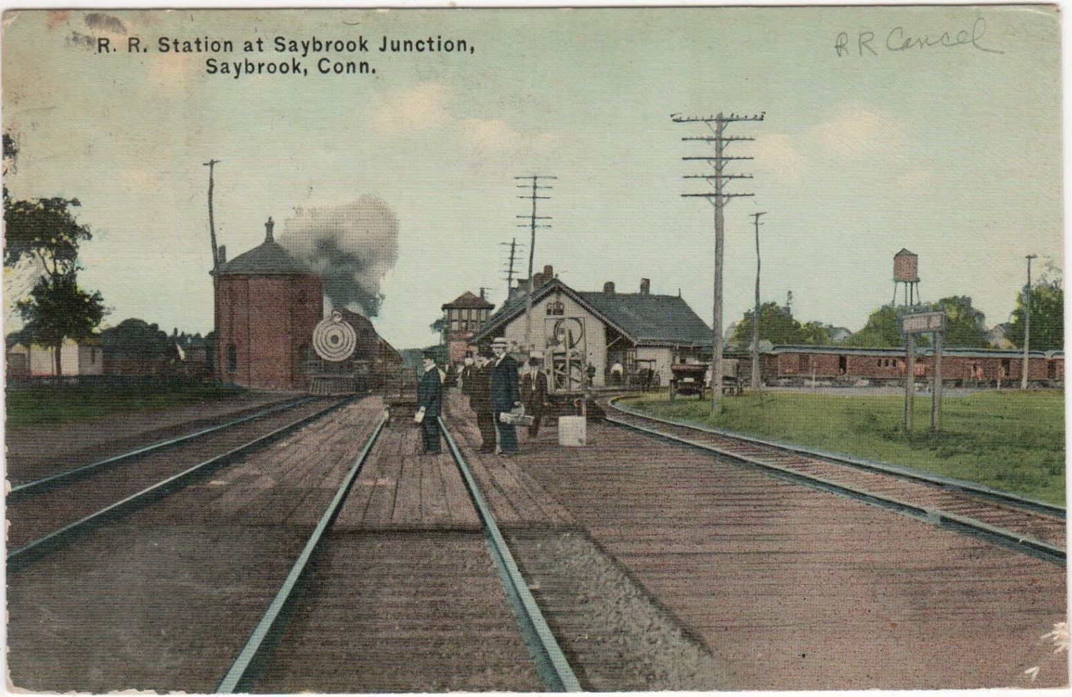 Early divided back postcard of Saybrook Junction station, postmarked 1915